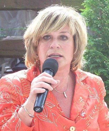 Mary Roos in 2007